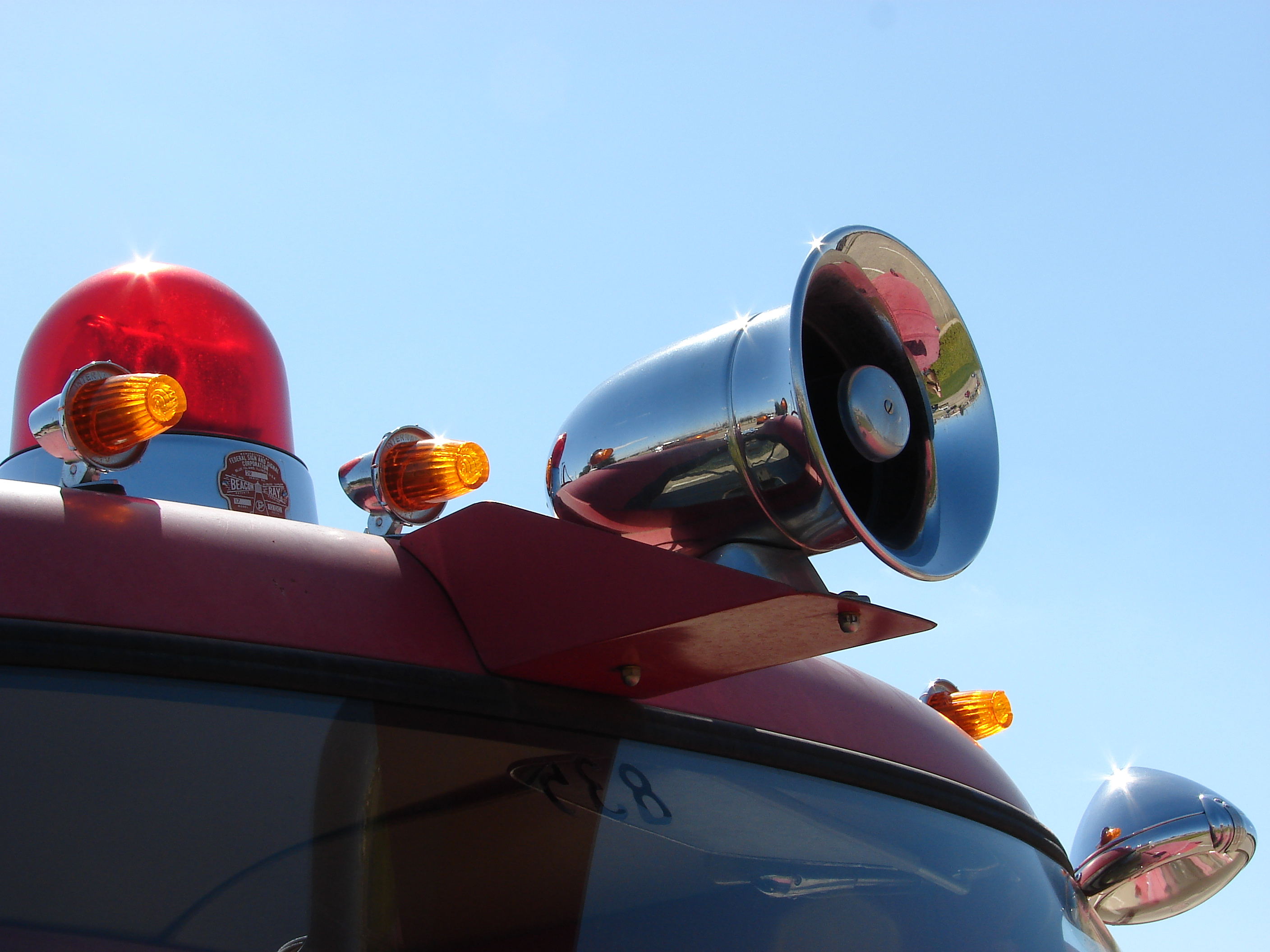 Fire engine truck with warning siren and emergency lights.